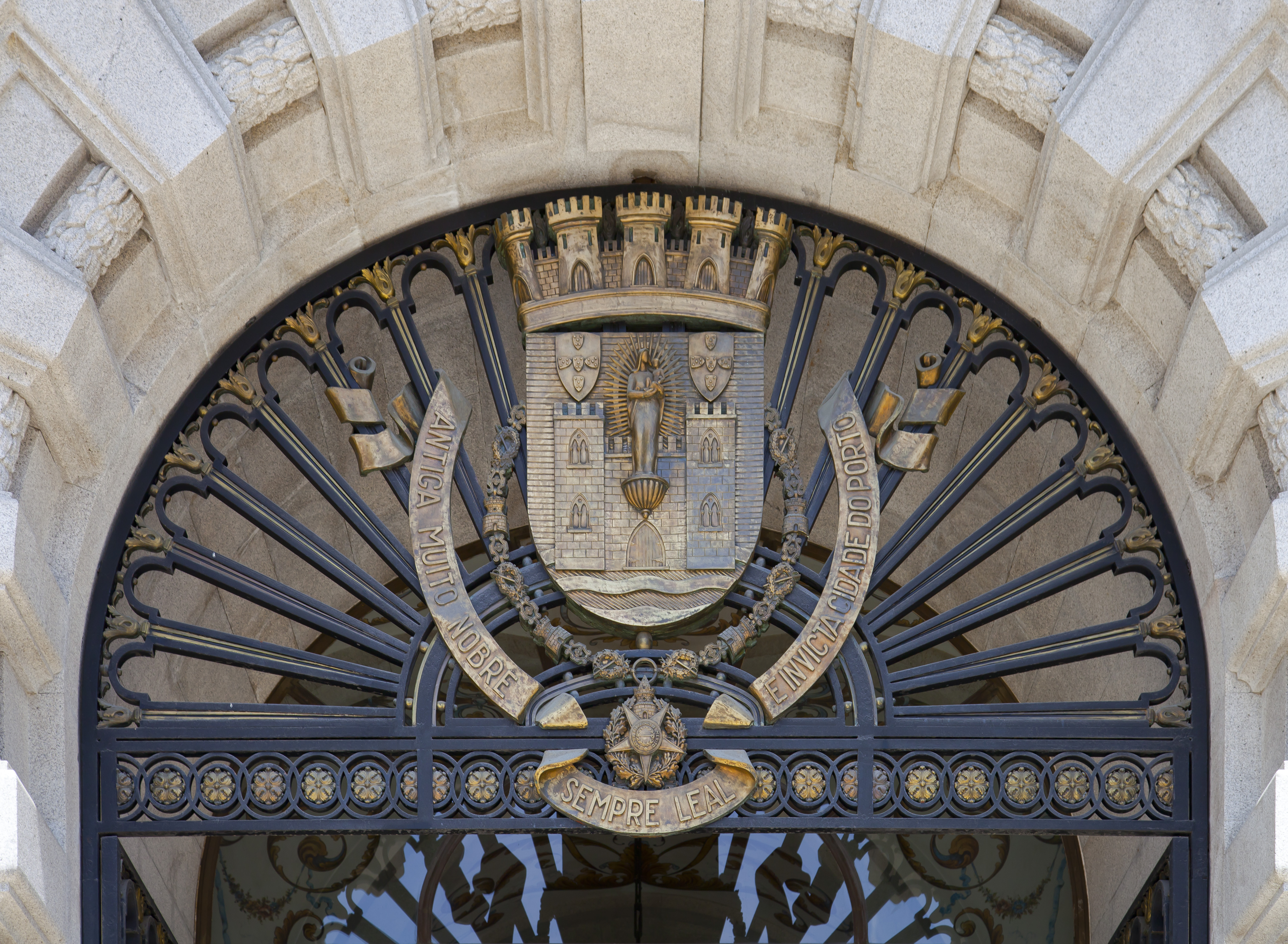 Porto city Hall, Portugal